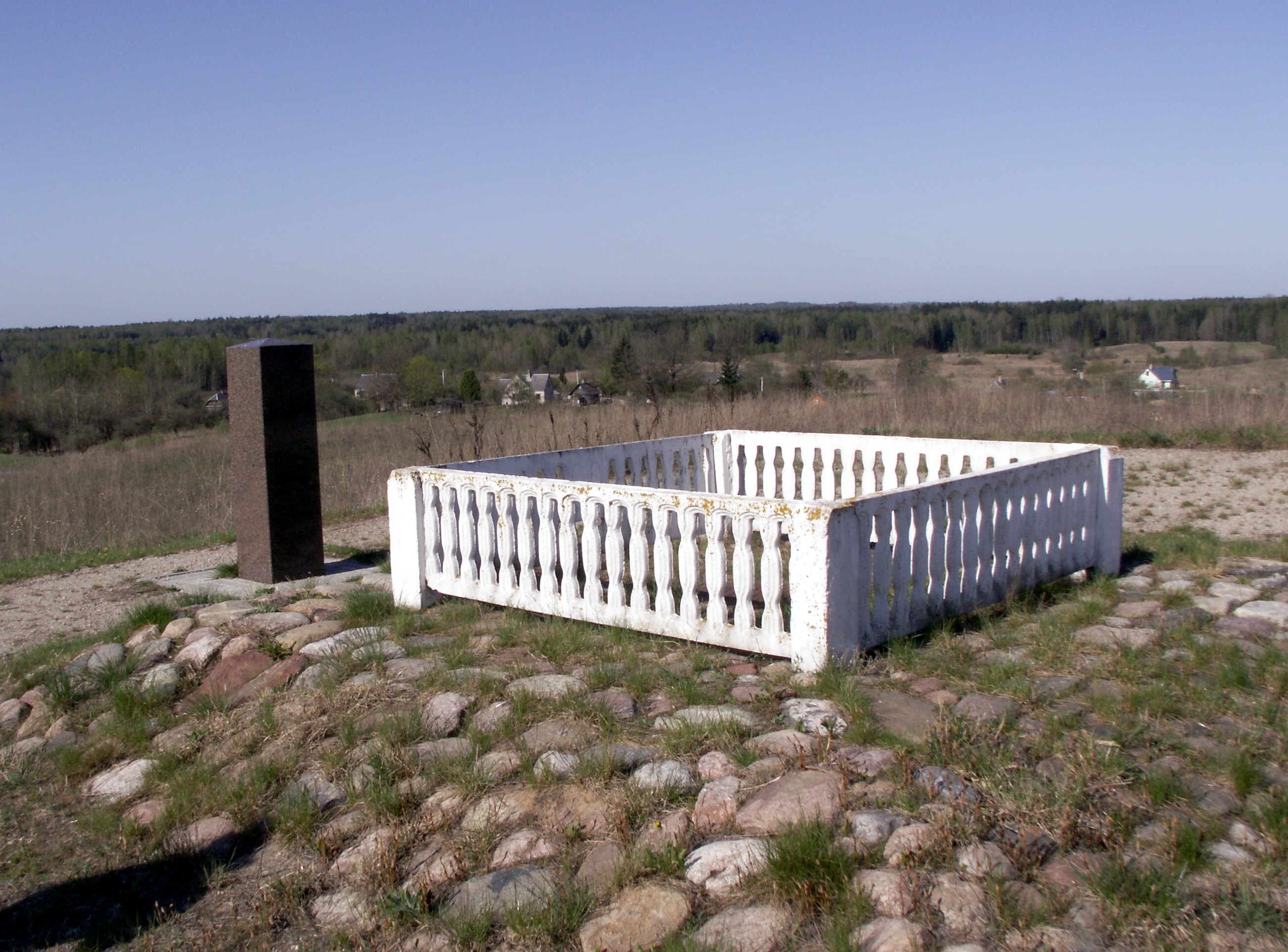 Struve Geodetic Arc, Meškonys, Vilnius district, Lithuania